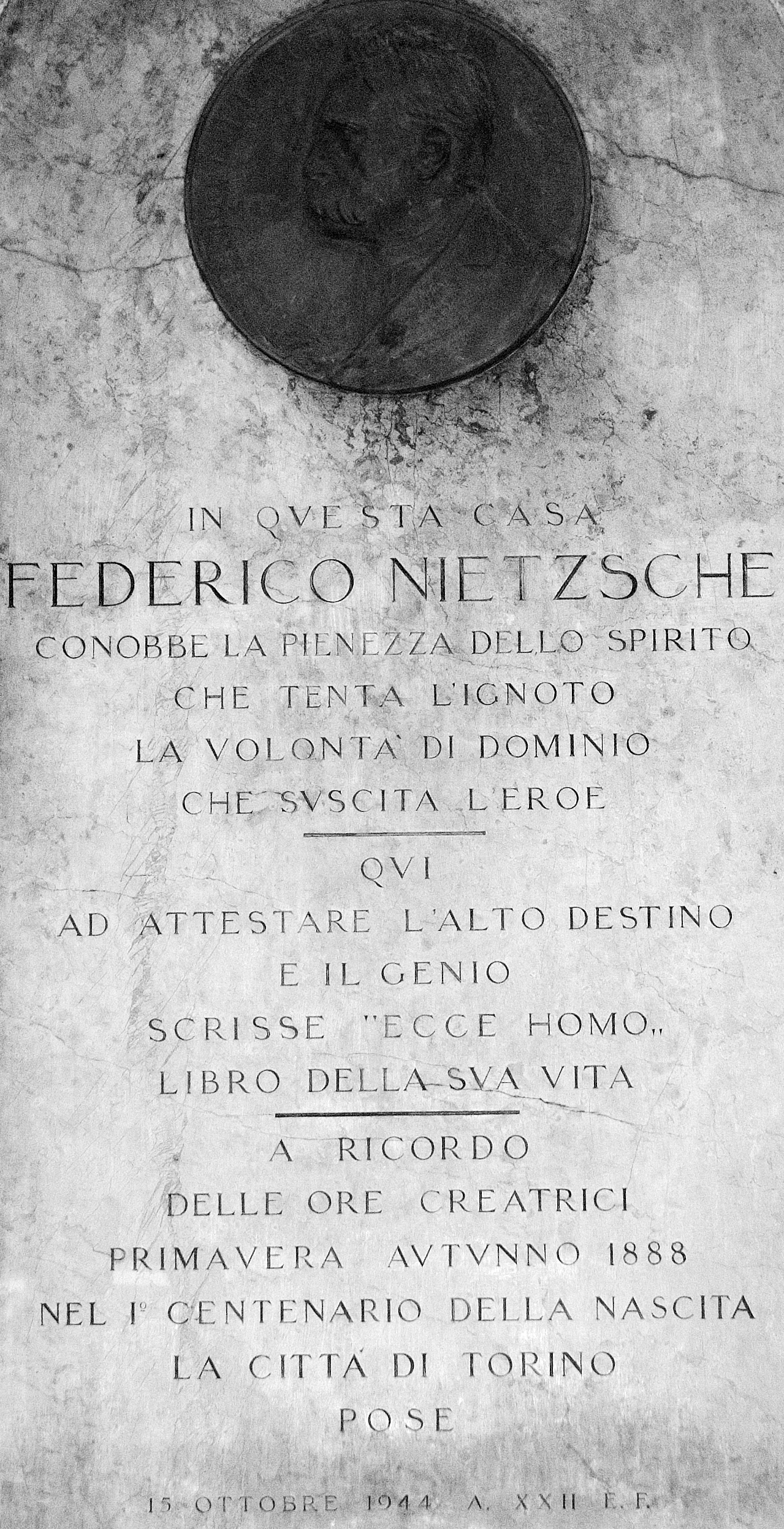 Dedicatory plaque outside the house FN stayed in while in Torino. It reads: IN THIS HOUSE FRIEDRICH NIETZSCHE KNEW THE FULLNESS OF SPIRIT THAT TEMPTS THE UNKNOWN THE WILL TO DOMINION THAT CALLS FORTH THE HERO HERE TO ATTEST TO THE HIGH DESTINY AND GENIUS HE WROTE "ECCE HOMO" BOOK OF HIS LIFE IN MEMORY OF THE CREATIVE HOURS SPRING AUTUMN 1888 IN THE 1 CENTENARY OF HIS BIRTH THE CITY OF TURIN PLACED 15 OCTOBER 1944 Y. XXII F.E.